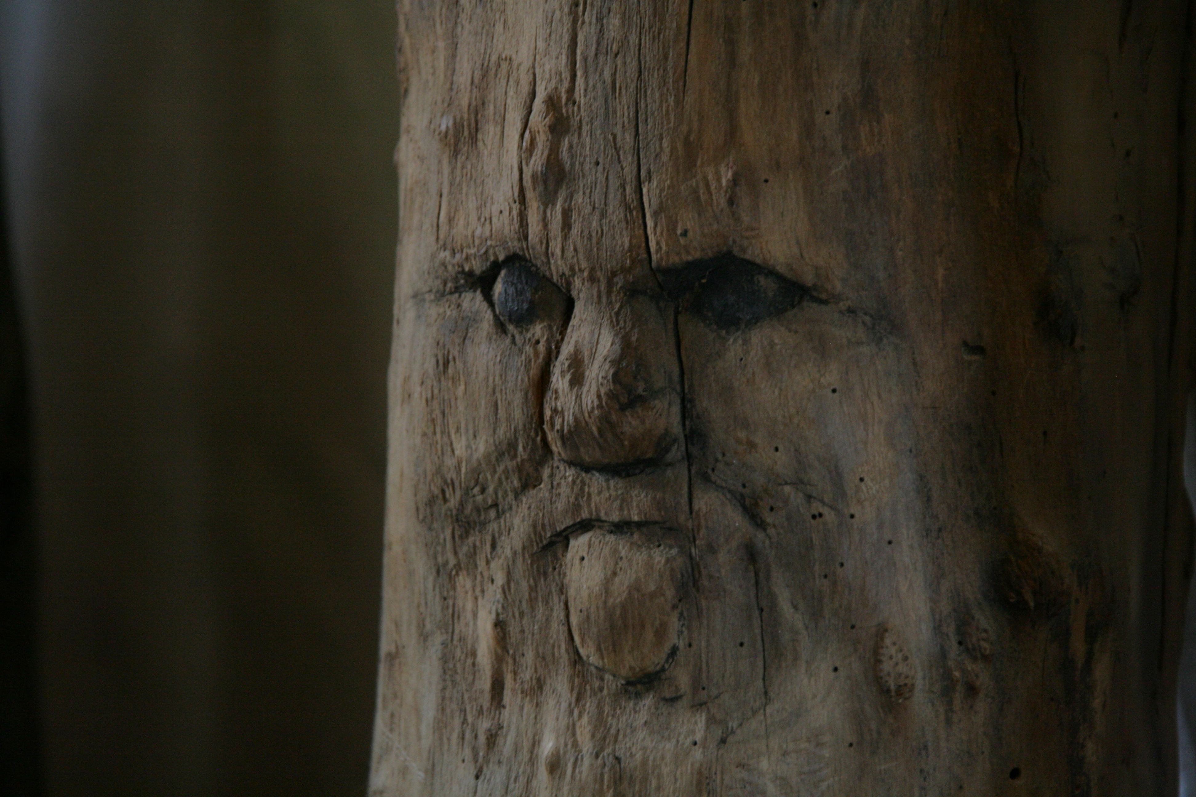 Sculpture of Jan Bernasiewicz, Muzeum Wsi Kieleckiej in Tokarnia